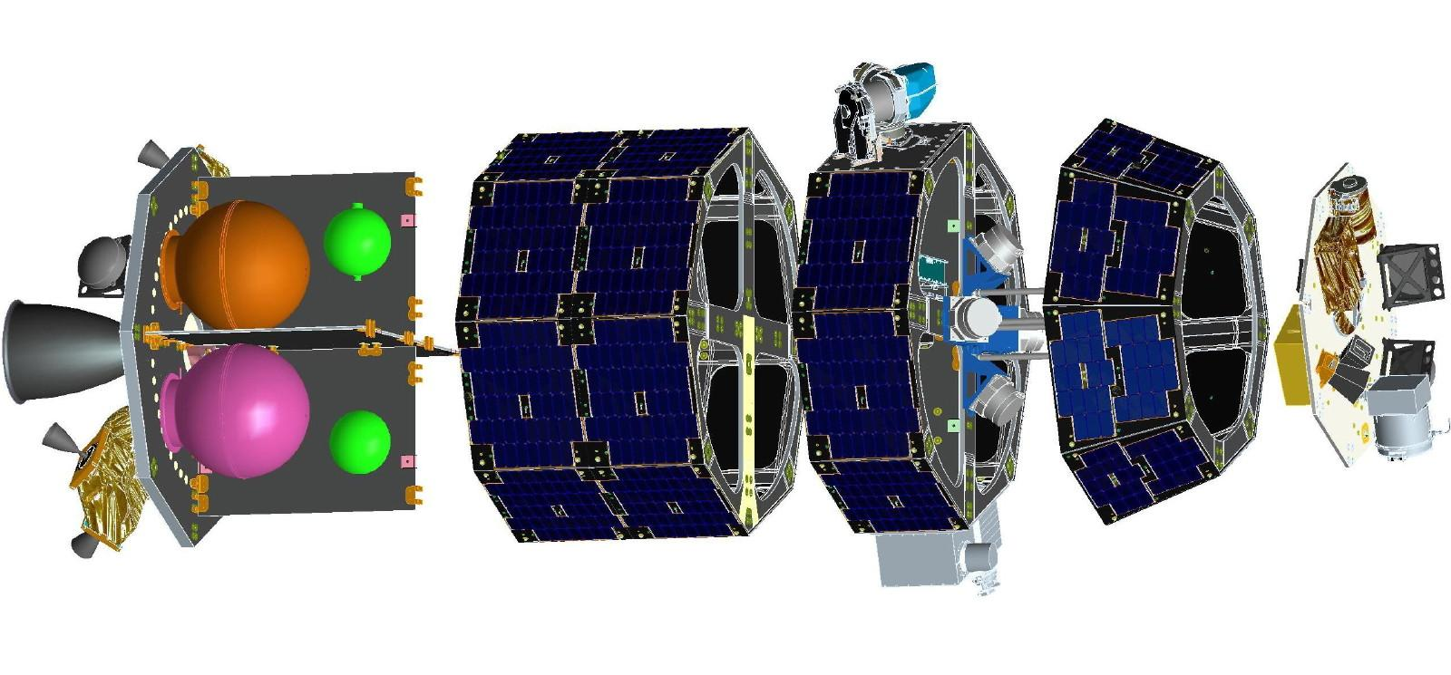 LADEE Spacecraft A computer-generated model of the LADEE spacecraft. Credit: NASA/Ames